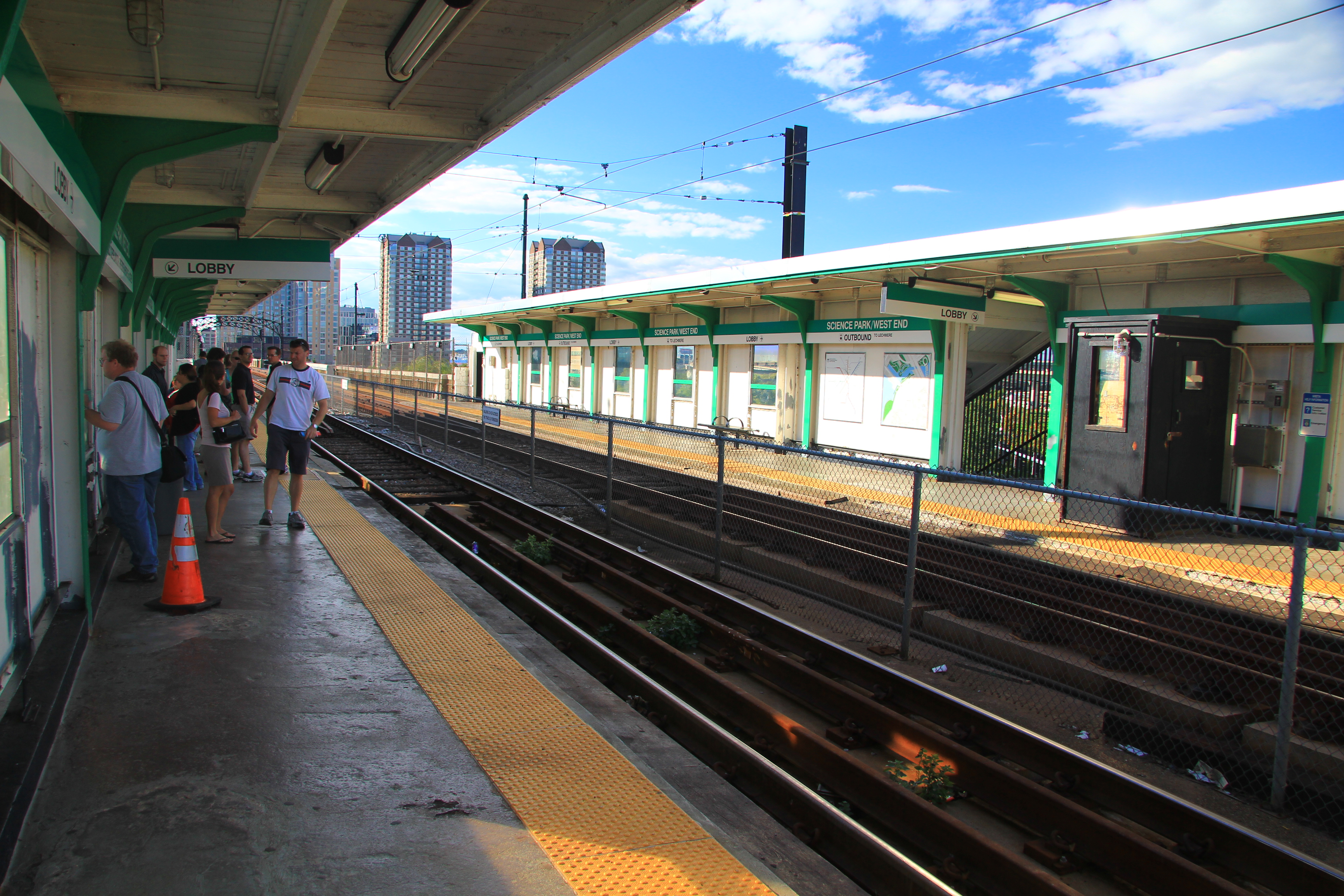 The MBTA's Science Park station in 2010, shortly before major renovations in 2011.